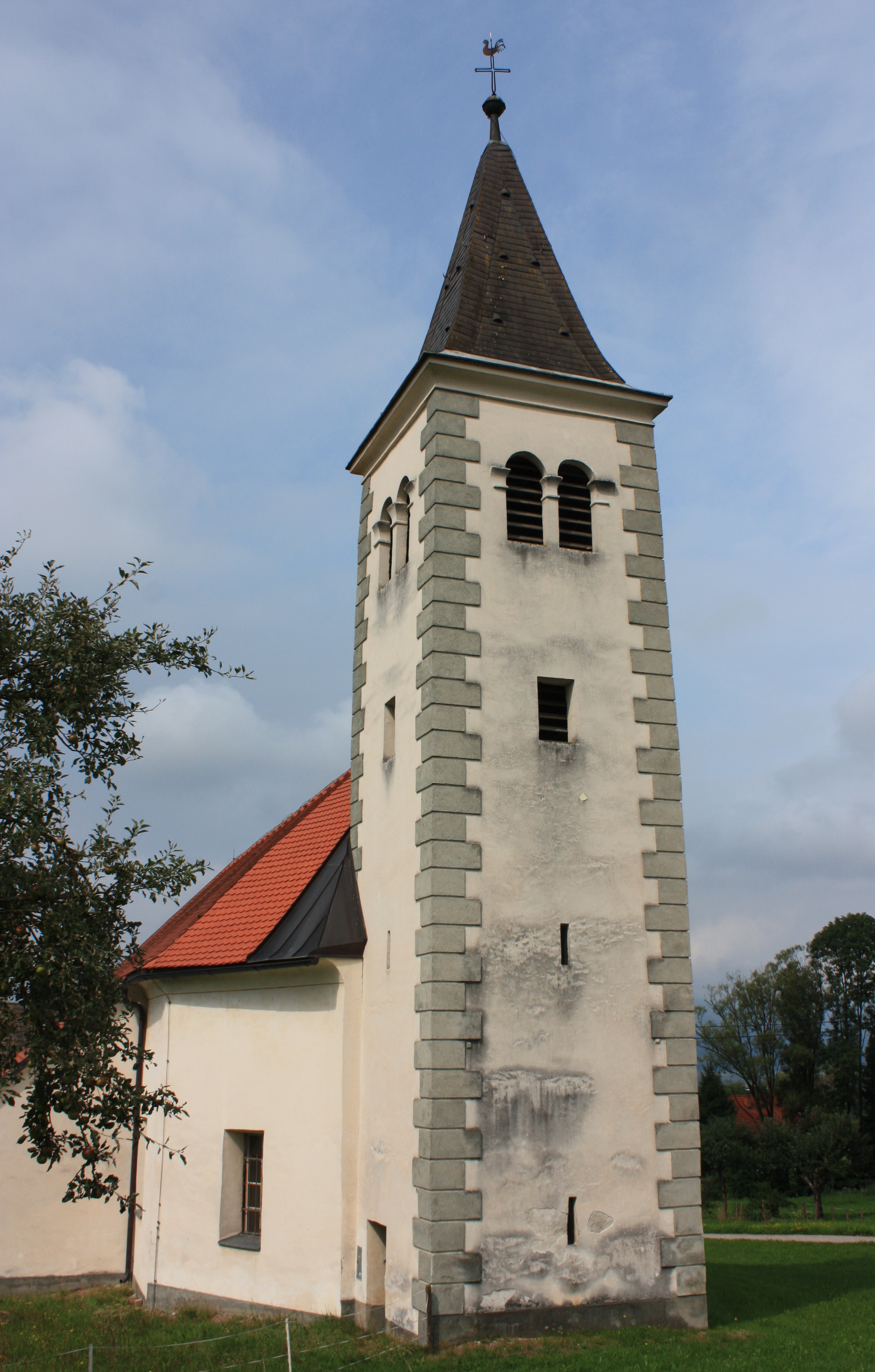 Subsidiary church "Saint Laurentius" Locality: Gemmersdorf Community:Sankt Andrä